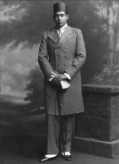 Sir Bijay Chand Mahtab Bahadur, Maharaja of Burdwan in 1906